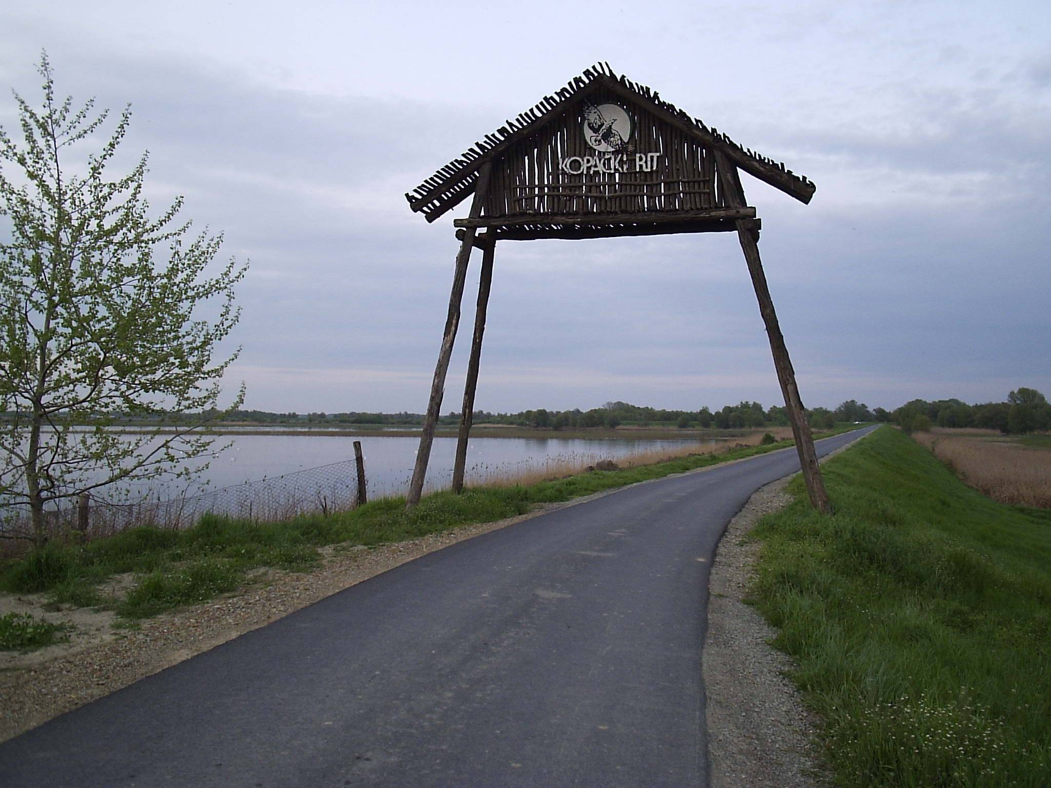 Kopcki rit